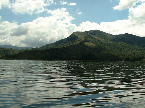 Photo from "La Honda" dam's lake (Uribante Caparo Hidroelectric complex), in the state of Táchira, Venezuela. Ripples of water reflecting the mountain and the sky distorted